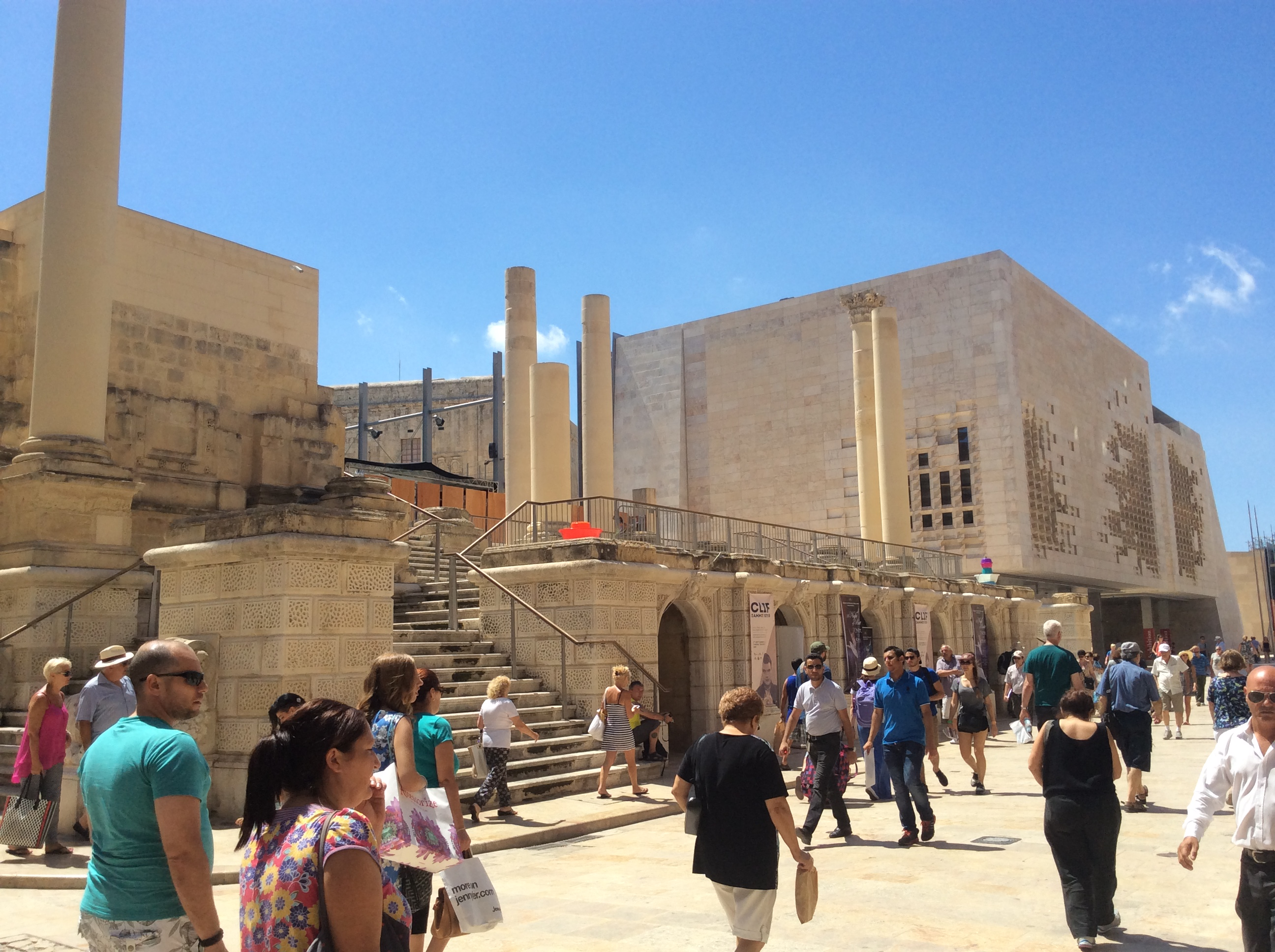 Maltese Parliament house and Pjazza Teatru Rjal